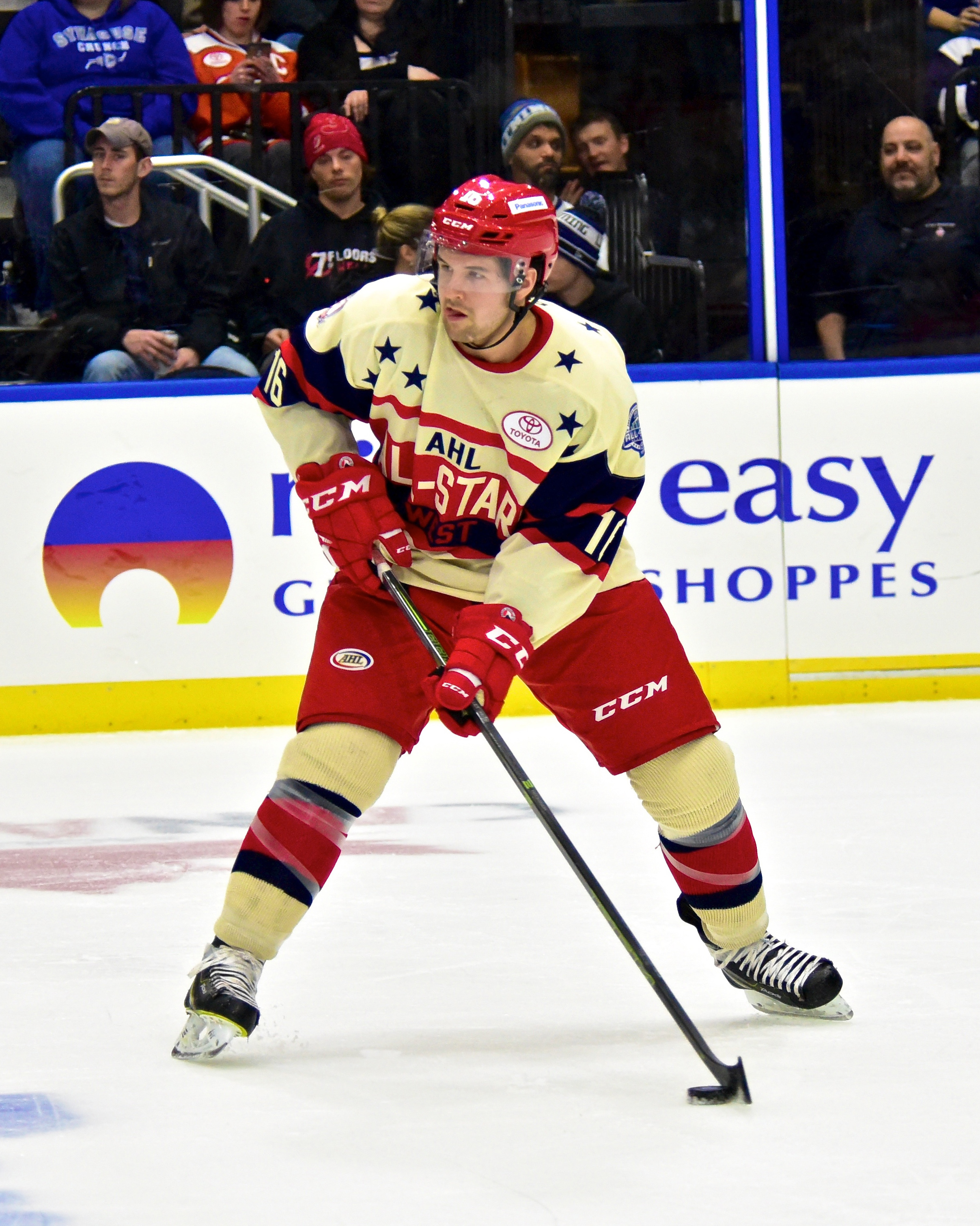 AHL All-Star Challenge Eastern Conference locker room at the War Memorial Arena in Syracuse, New York on Monday, February 1, 2016.